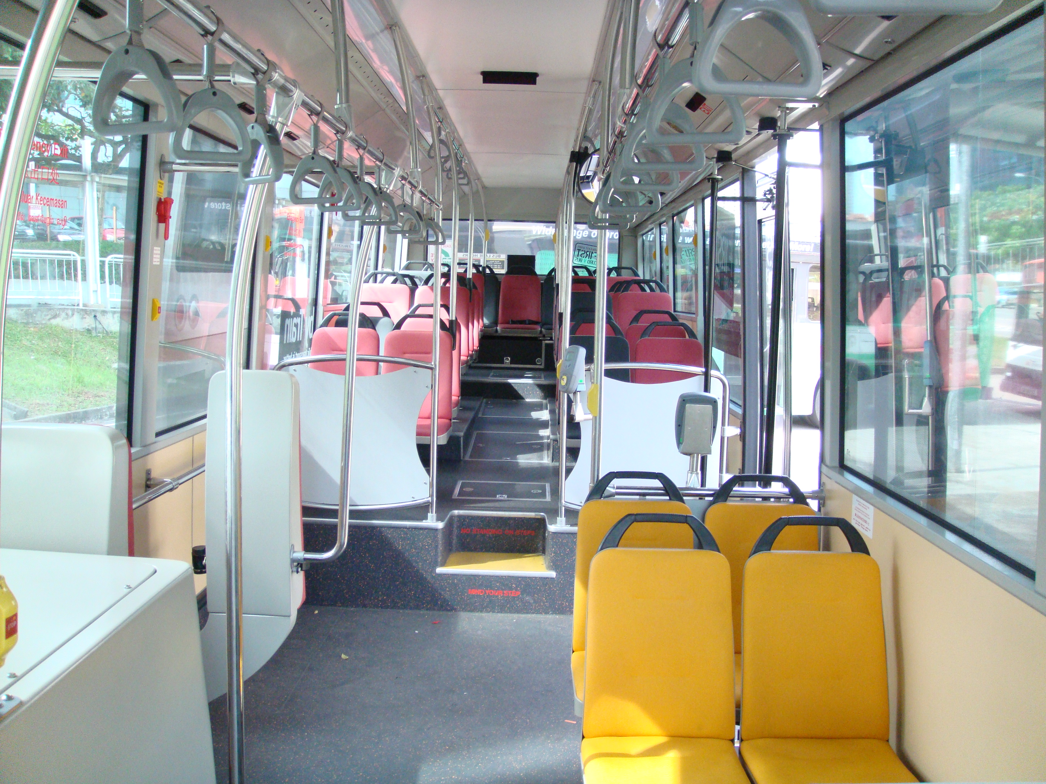 Interior view of the first SMRT Buses Mercedes-Benz OC500LE-1830h (SMB1H), Gemilang bodied, in Singapore.